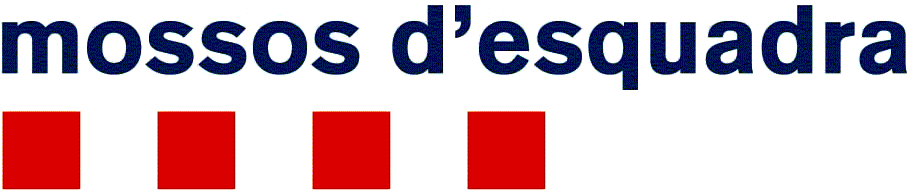 Logo of Mossos d'Esquadra Mossos d'Esquadra